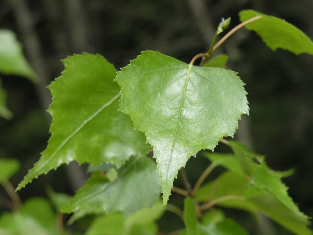 Betula populifolia (grey birch) leaves. New Brunswick, Canada.